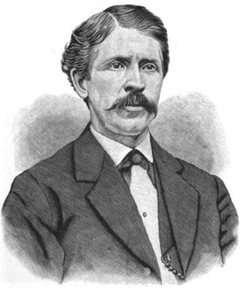 Lithograph is labeled Capt. Thomas F. Vaughn. It shows a man in a dark civilian coat and a white shirt and tie. The man wears a moustache and has a full head of dark hair.